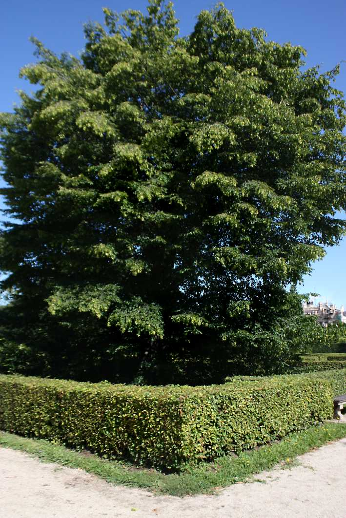 Lednice na Moravě, Czech republic, english park